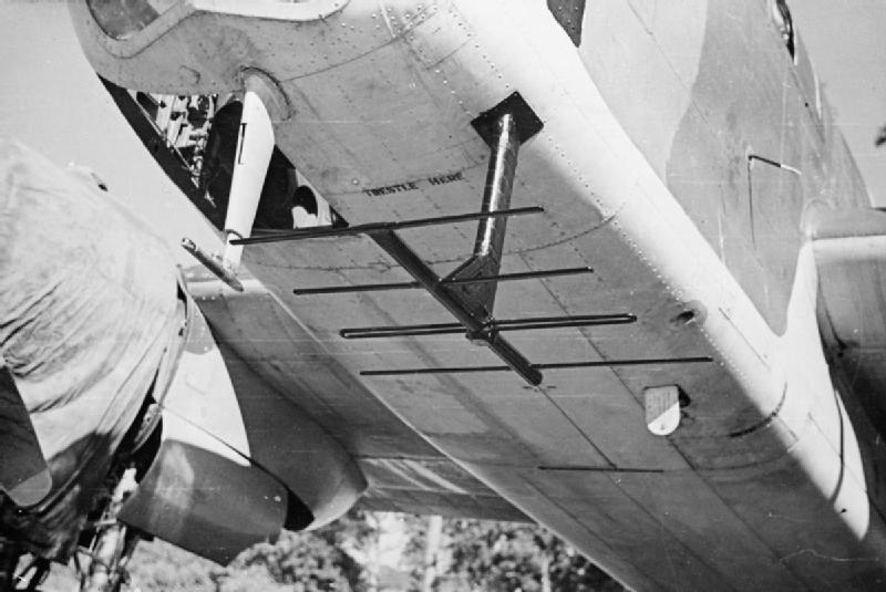 Radar and Electronic Warfare 1939-1945 Aircraft Navigation and Guidance: Close-up of the radar antennae fitted beneath a Bristol Beaufort aircraft for anti-submarine warfare.